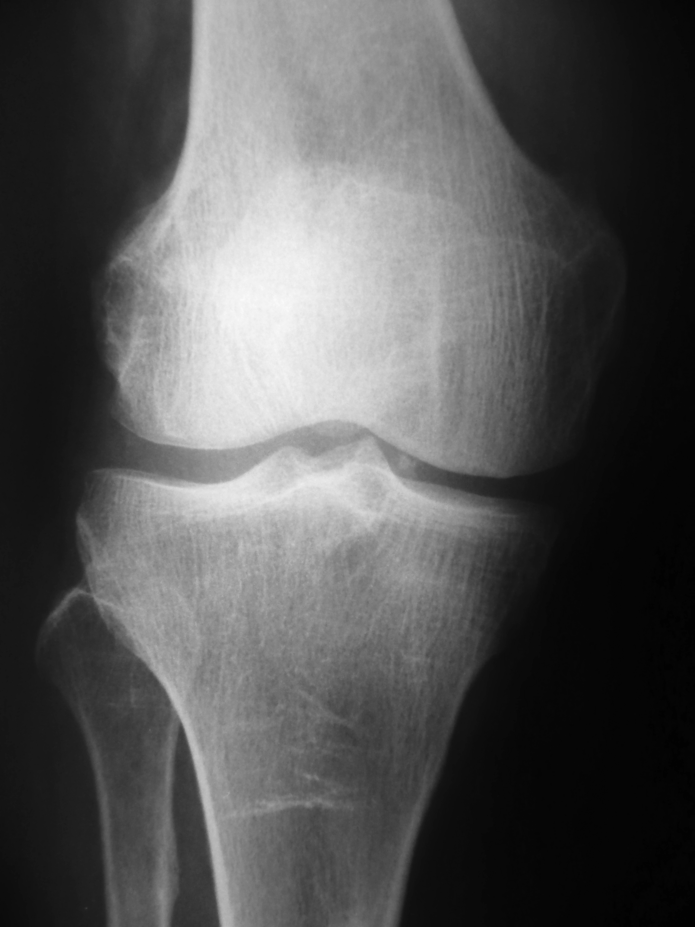 Medical X-ray, showing loose body in the joint due to osteochondritis dissecans of the knee.